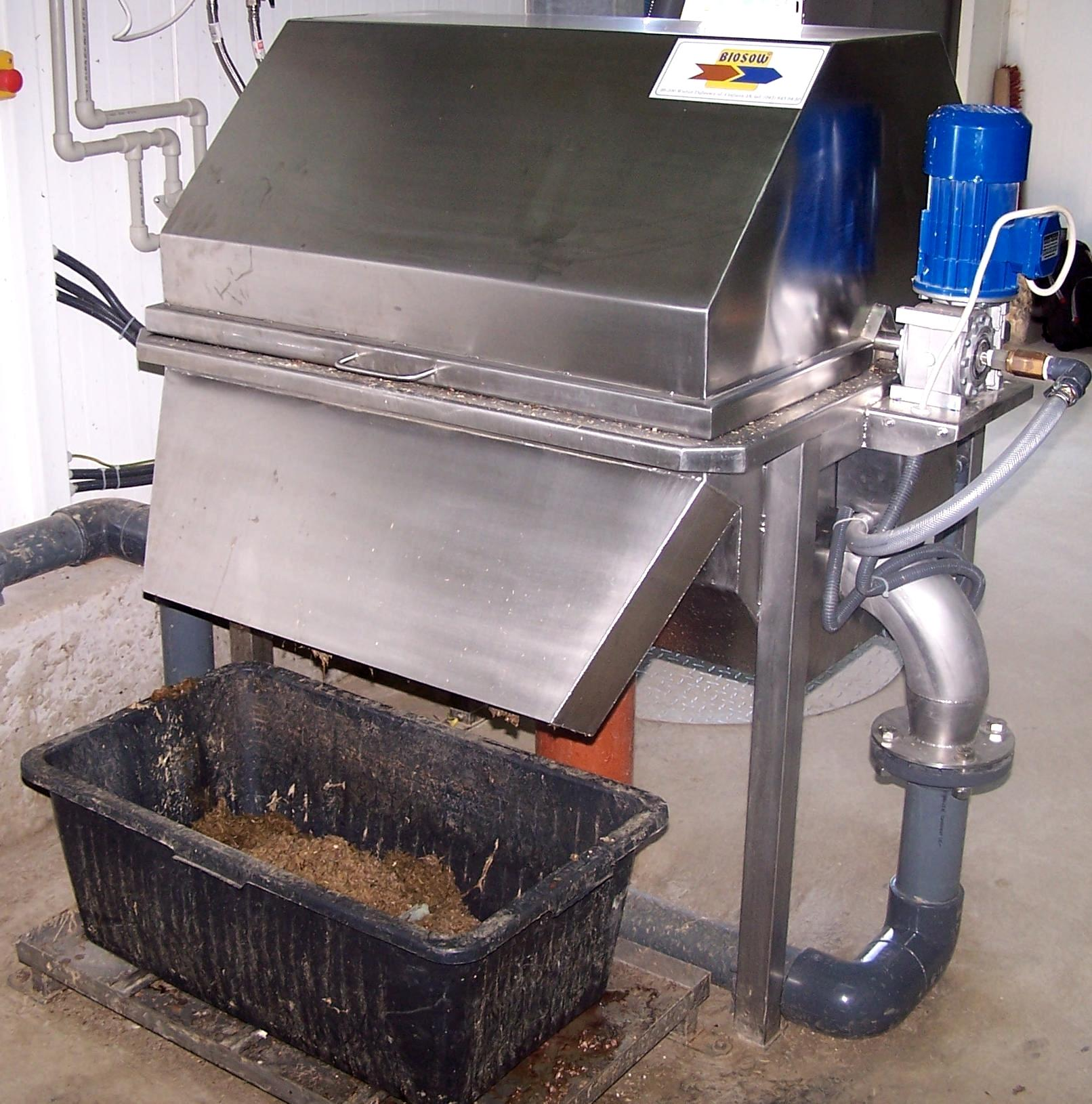 Swivel screen sieve - 2 mm gap, self-cleaning system (nozzles with hot water). Work at the slaughterhouse of horses and cattle